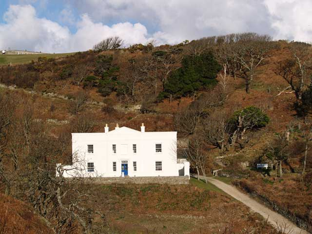 Millcombe House Build by William Hudson Heaven, sometime after 1851.